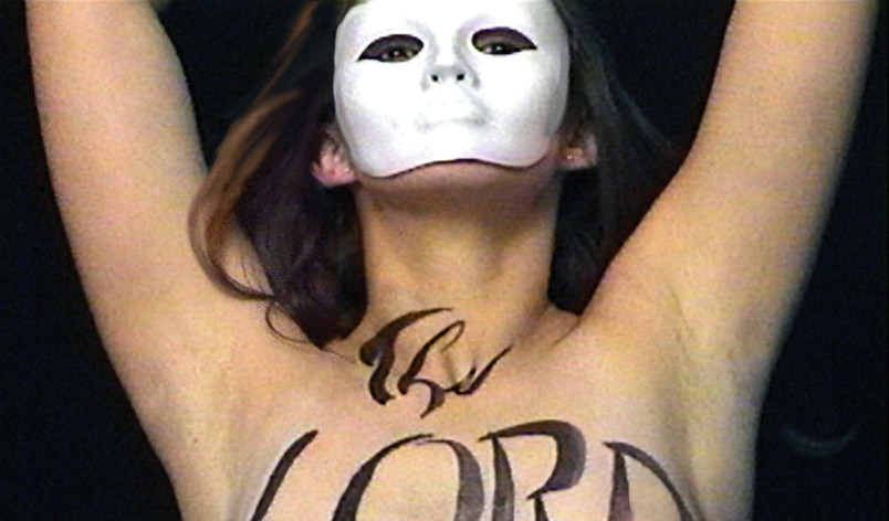 Still from "The 23rd Psalm", a film short by Tim Holmes from the Body Psalms Project to re-evaluate the body in capitalist culture, 2007